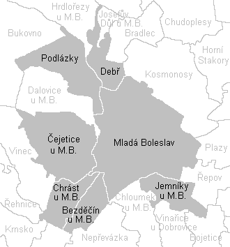 Cadastral map of Mladá Boleslav